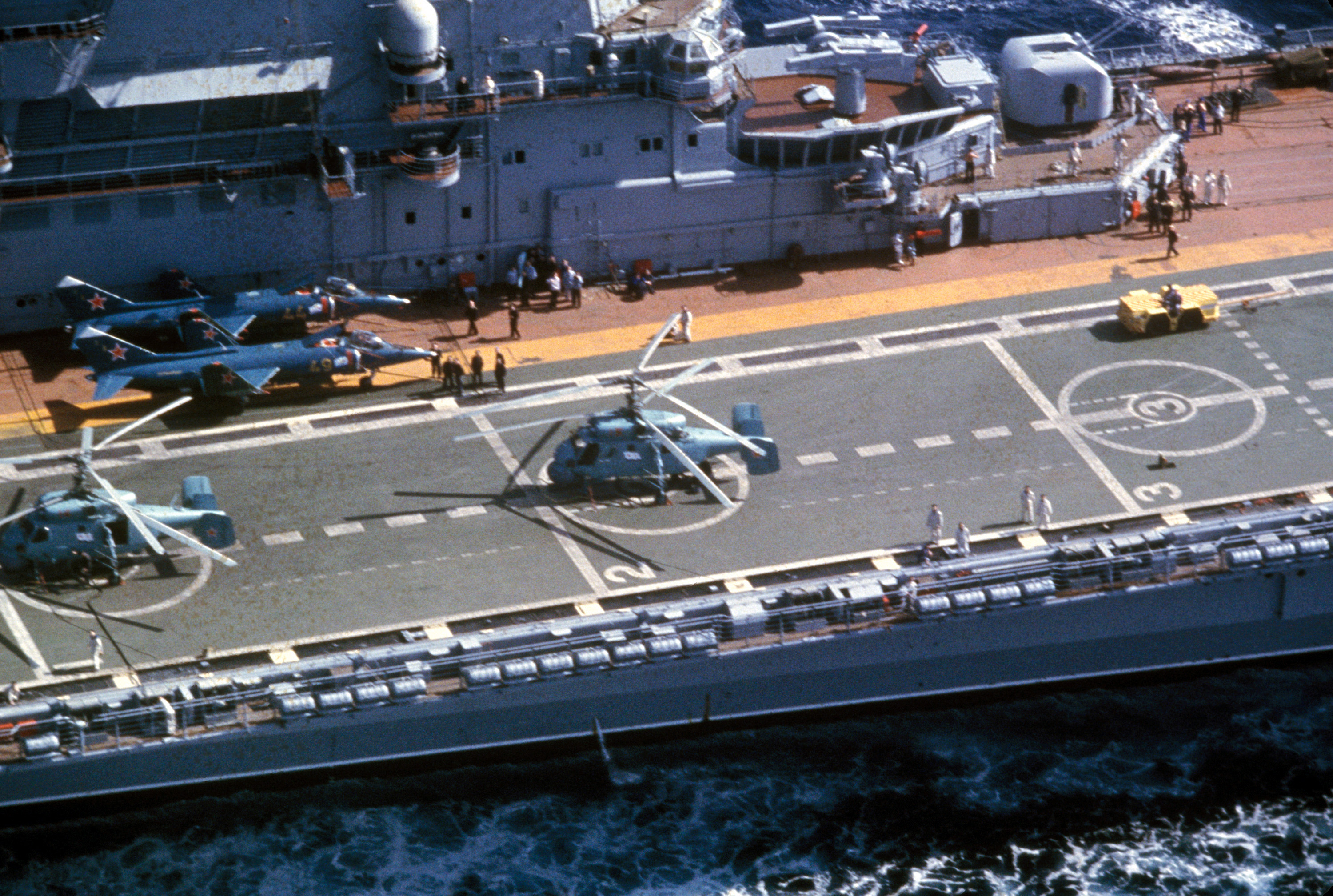 Ka-25 Hormone helicopters parked on the flight deck of the Soviet aircraft carrier MINSK (CVHG).